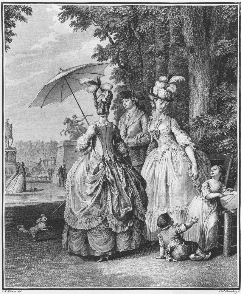 The Rendevous at Marly. The lady on the left is wearing a polonaise and carrying a parasol.